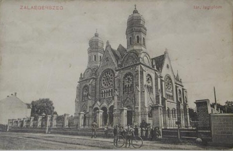 Synagouge in Zalaegerszeg